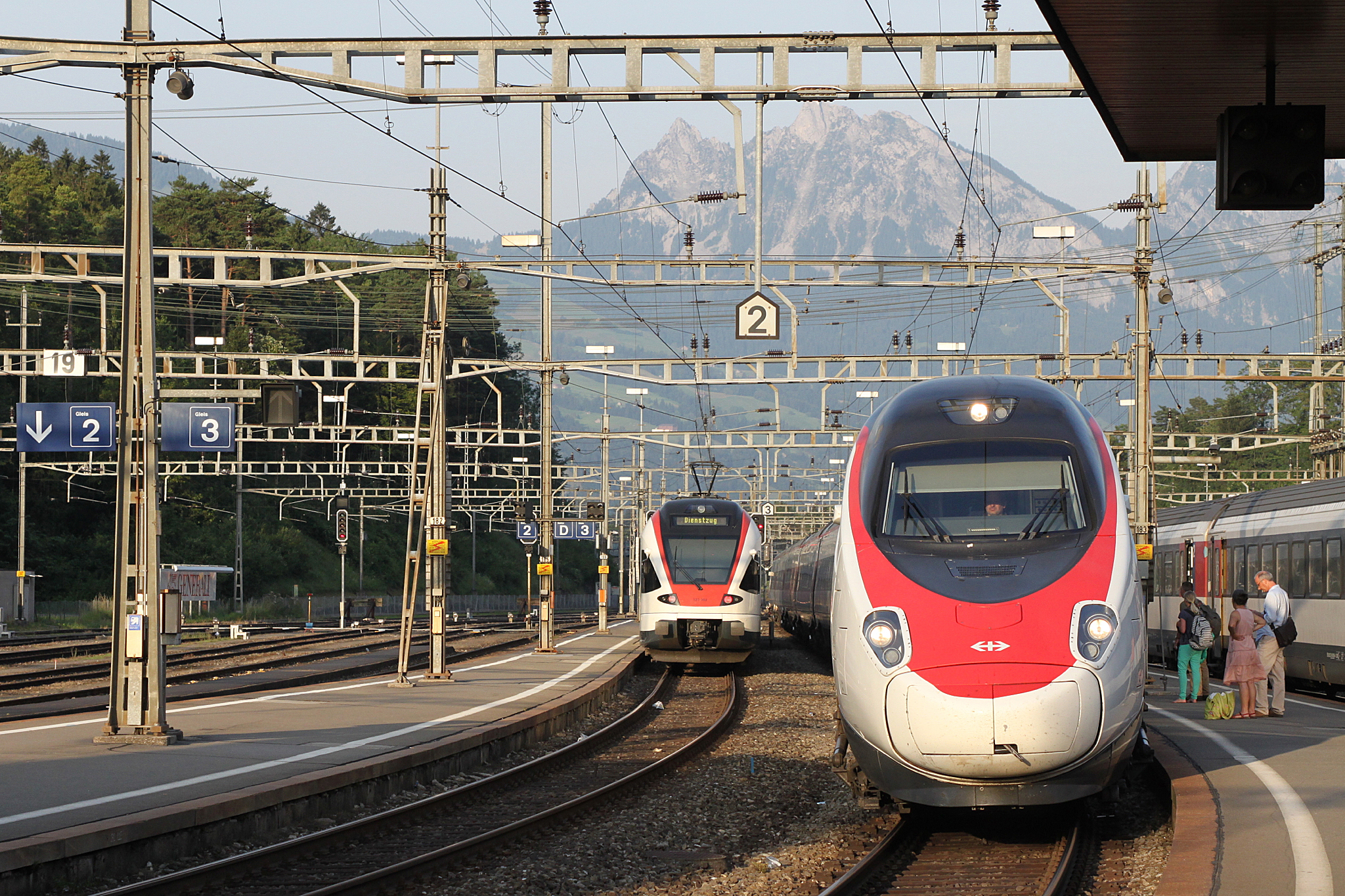 SBB CFF FFS ETR 610 005 arriving with a delay of 25 minutes at Arth-Goldau train station as EuroCity 20 from Milano C.le to Zürich HB.